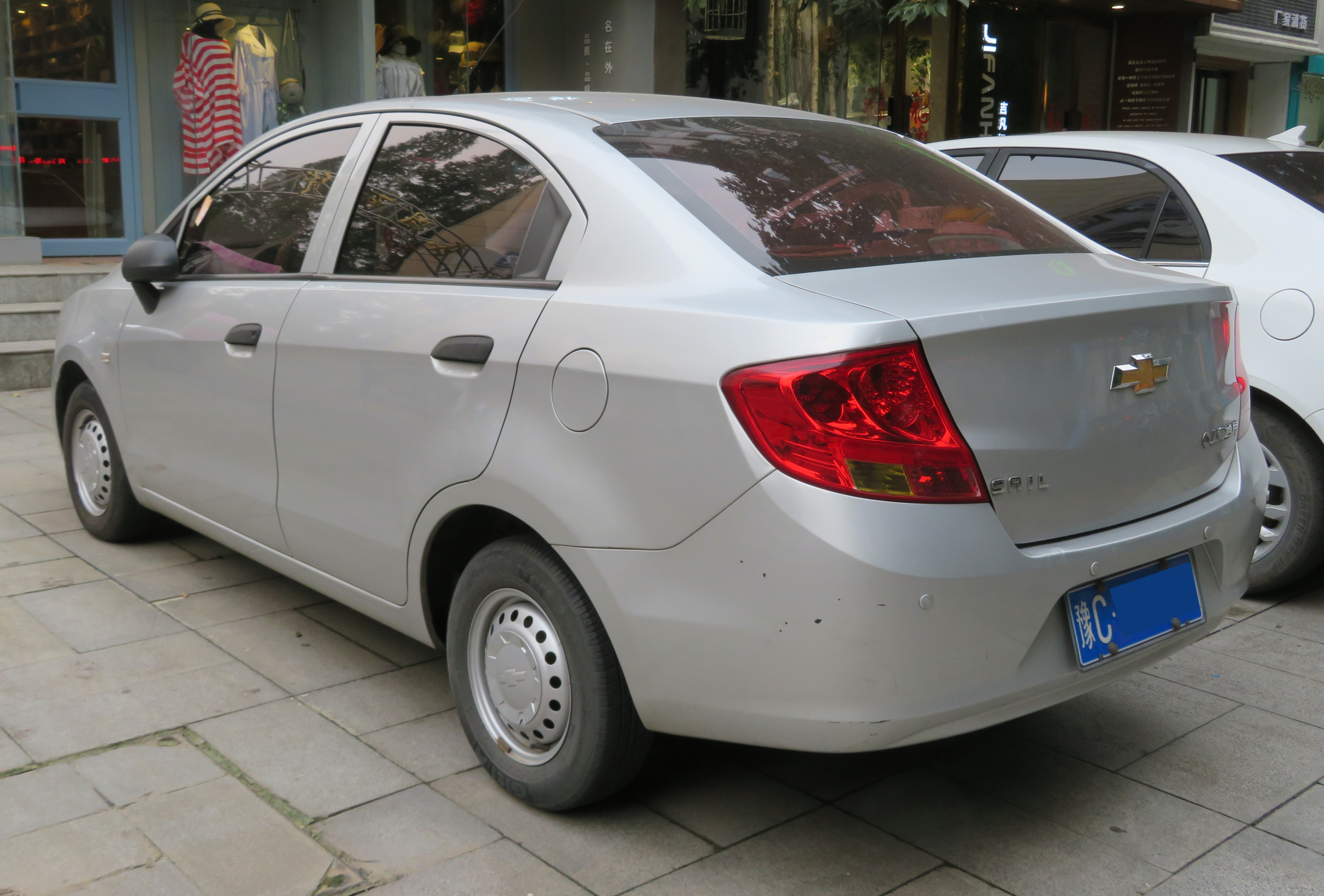 Photographed in Luoyang, Henan province, China